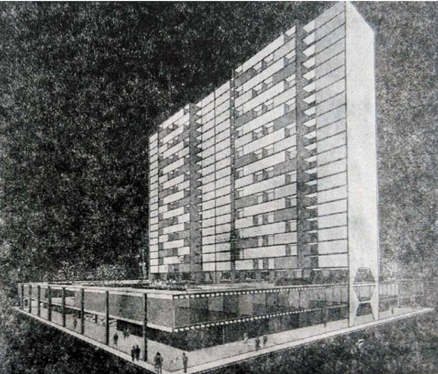 Design to replace Plaza del Vapor by Carlos Alfonso, architect. Havana Cuba, 1959